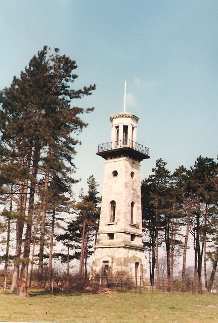 Square limestone built water tower, Grimston Park, near Tadcaster, North Yorkshire, UK. Designed by Decimus Burton c.1840